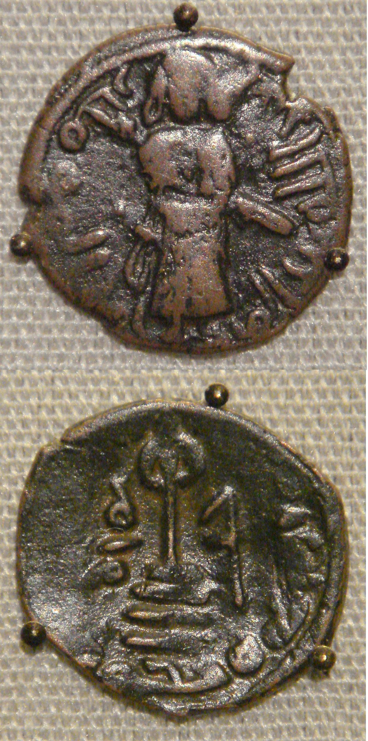 Umayyad Caliphate: two falus (copper coins) based on Byzantine prototypes, one obverse (front side) ond one reverse (back side). Aleppo, Syria, circa 695 CE. (See discussion page).